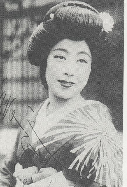 Mamechiyo